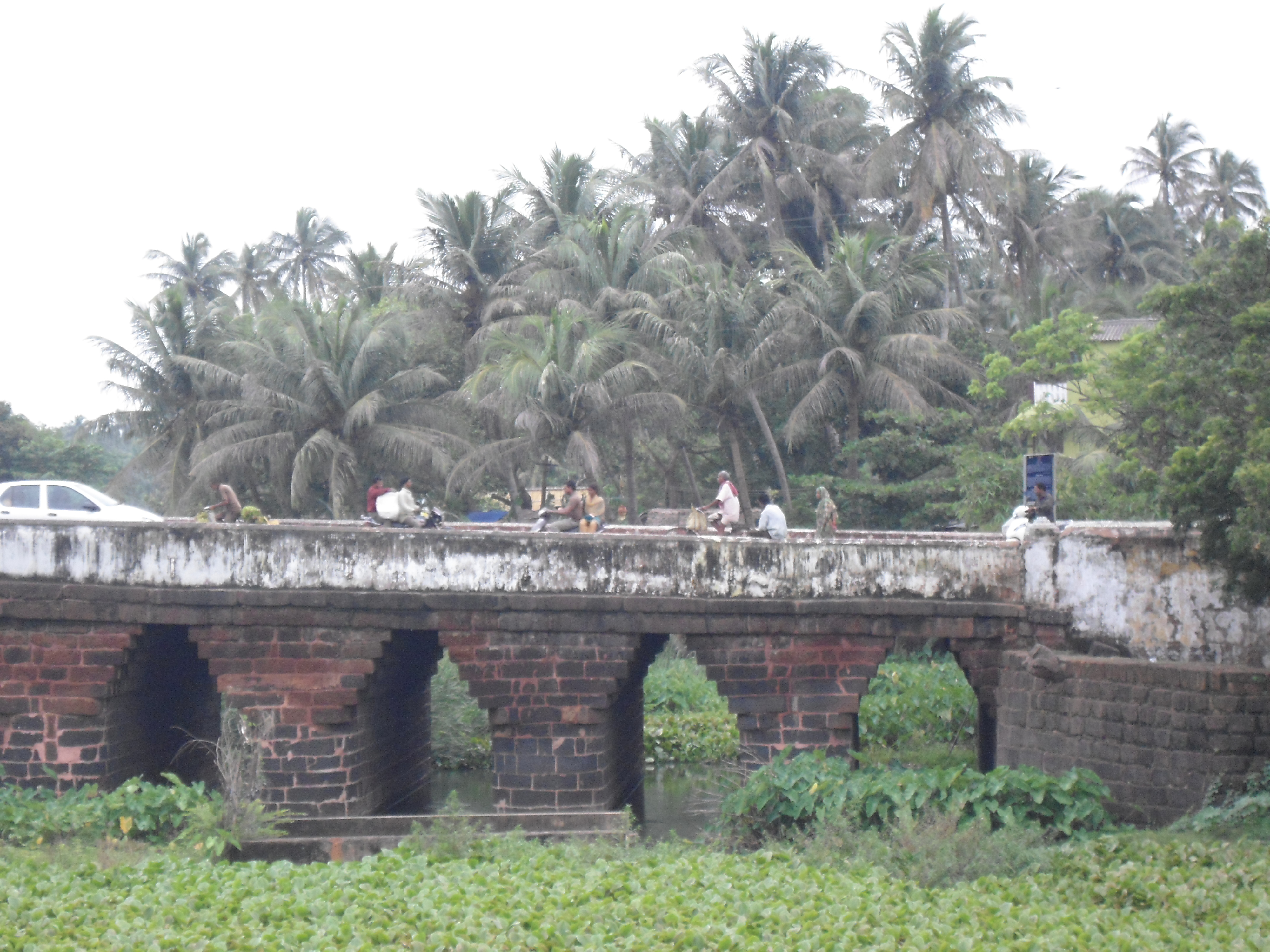 A close view of Athara Nala Bridge